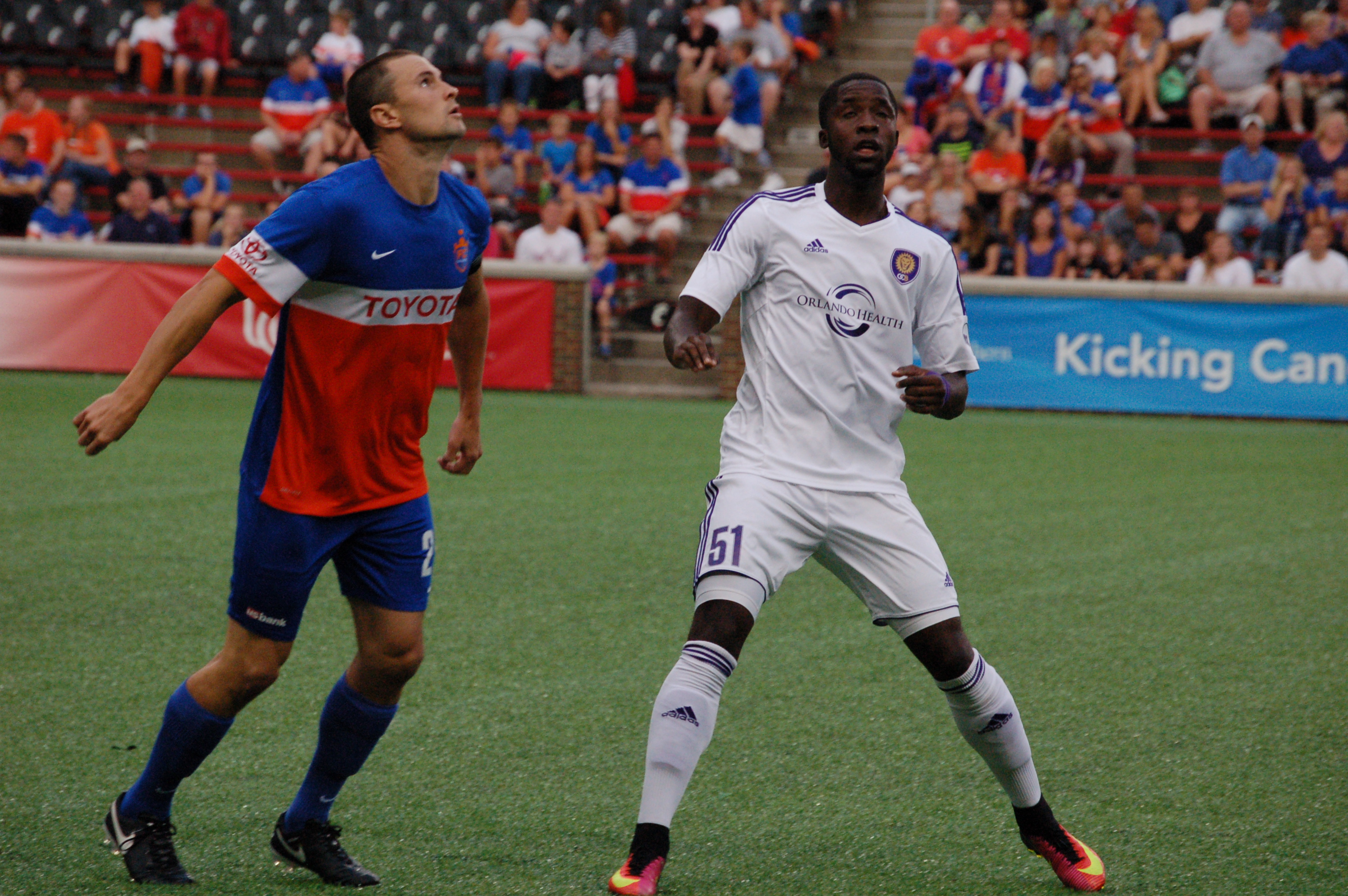 Austin Berry, Michael Cox Taken during USL regular season match between FC Cincinnati and Orlando City B at Nippert Stadium in Cincinnati, USA on September 17, 2016.